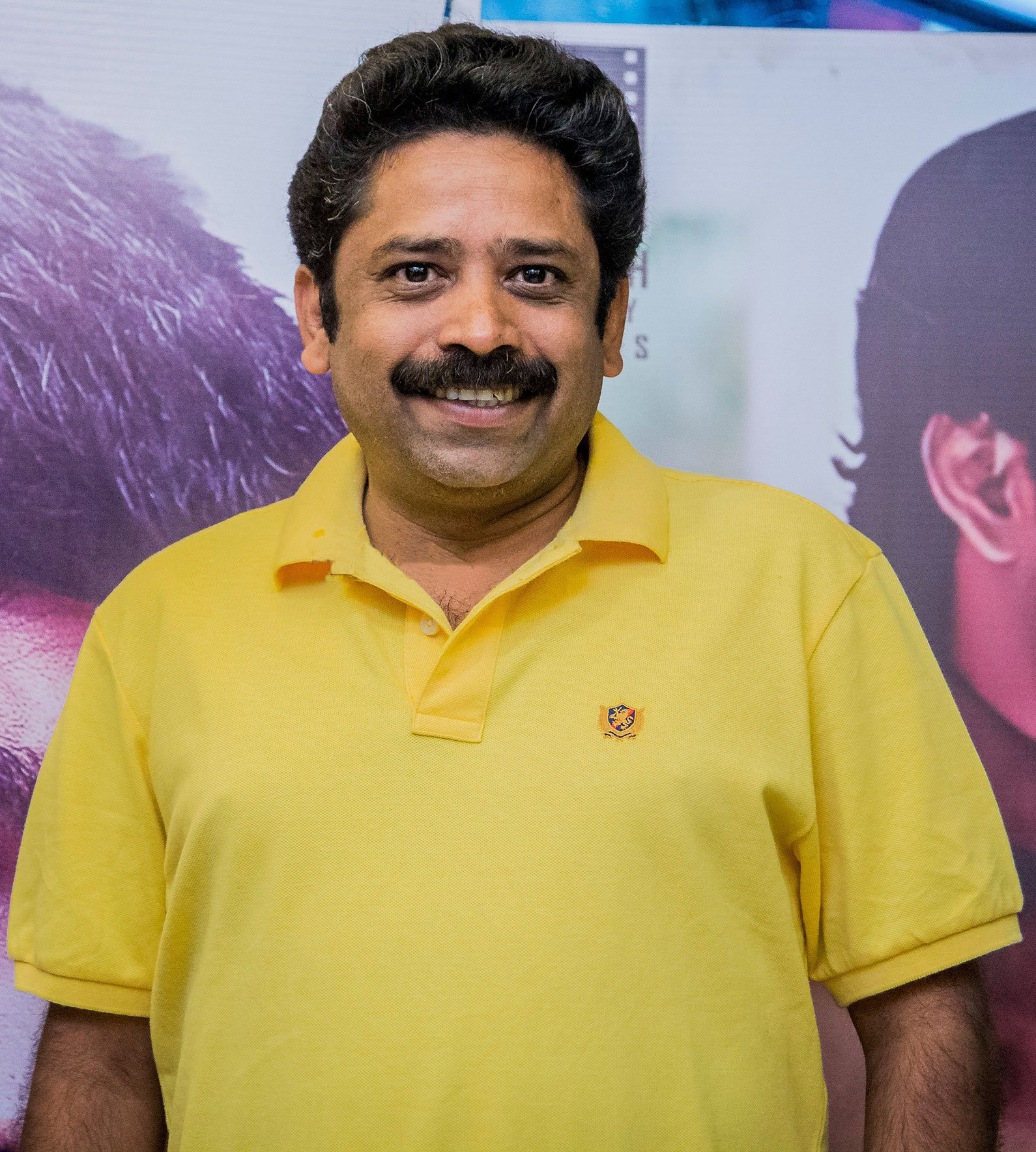 Seenu Ramasamy at Dharmadurai Success Meet